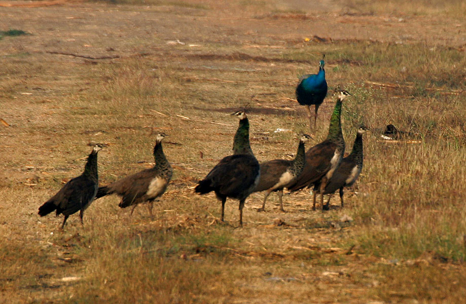 Indian Peafowl, Common Peafowl or Blue Peafowl Pavo cristatus near Hyderabad, India.